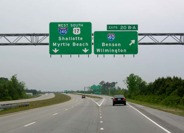 Interstate 140 west at Interstate 40 north of Wilmington, North Carolina.